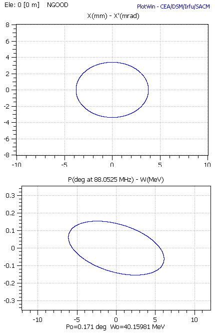 Beam represented by an ellipsoid issued from its first and second order momenta. Vizualisation in two 2D sub-phase-spaces.